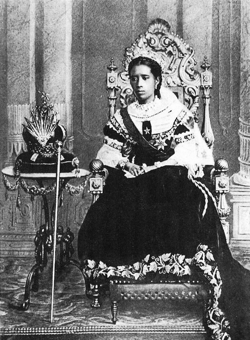 Ranavalona III (November 22, 1861 – May 23, 1917) was the last sovereign of the Kingdom of Madagascar.